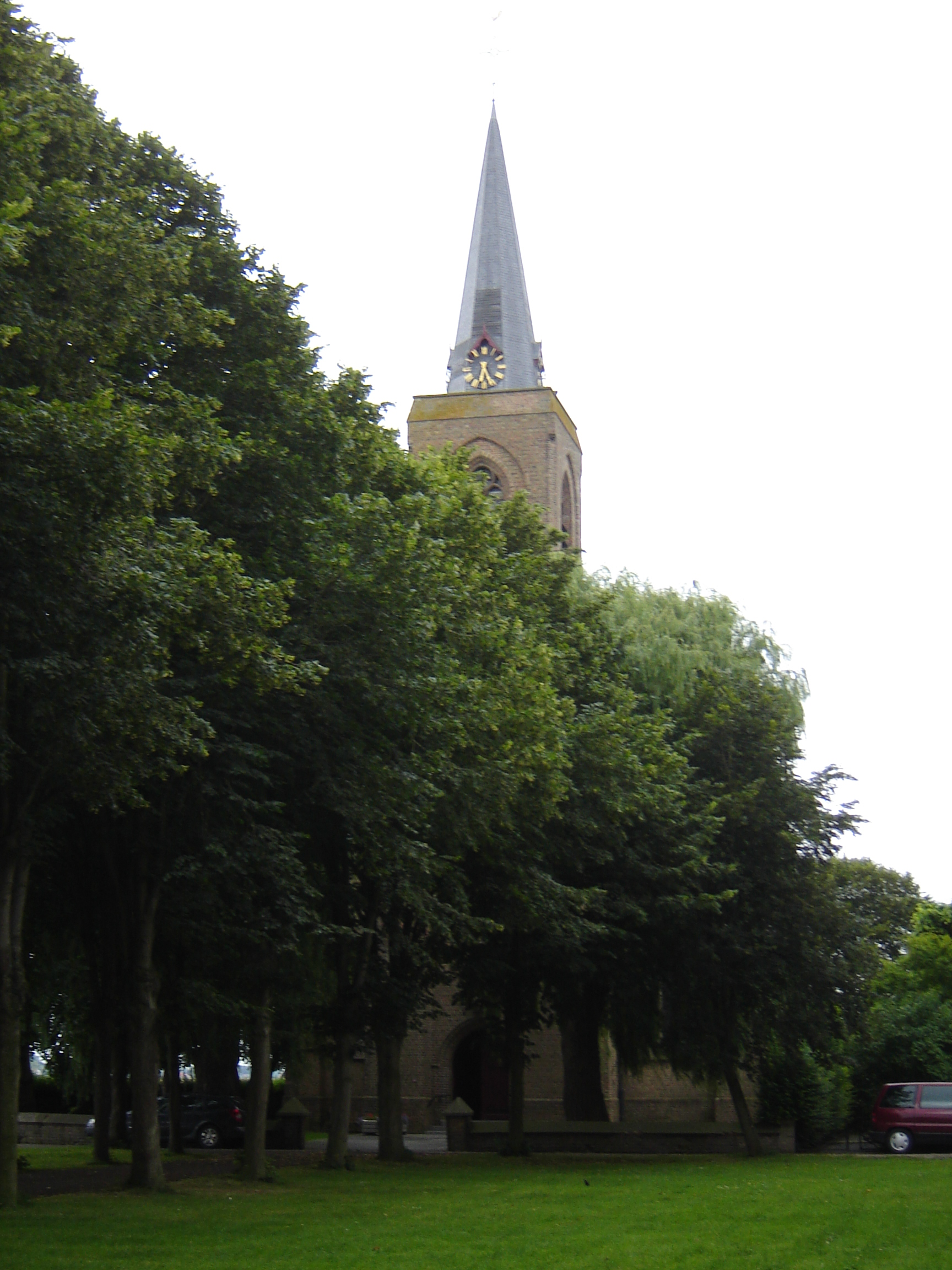 Church of Saint Pharailde in Oostkerke. Built in 1922-23, after the village had been completely destructed during World War I. Oostkerke, Diksmuide, West Flanders, Belgium